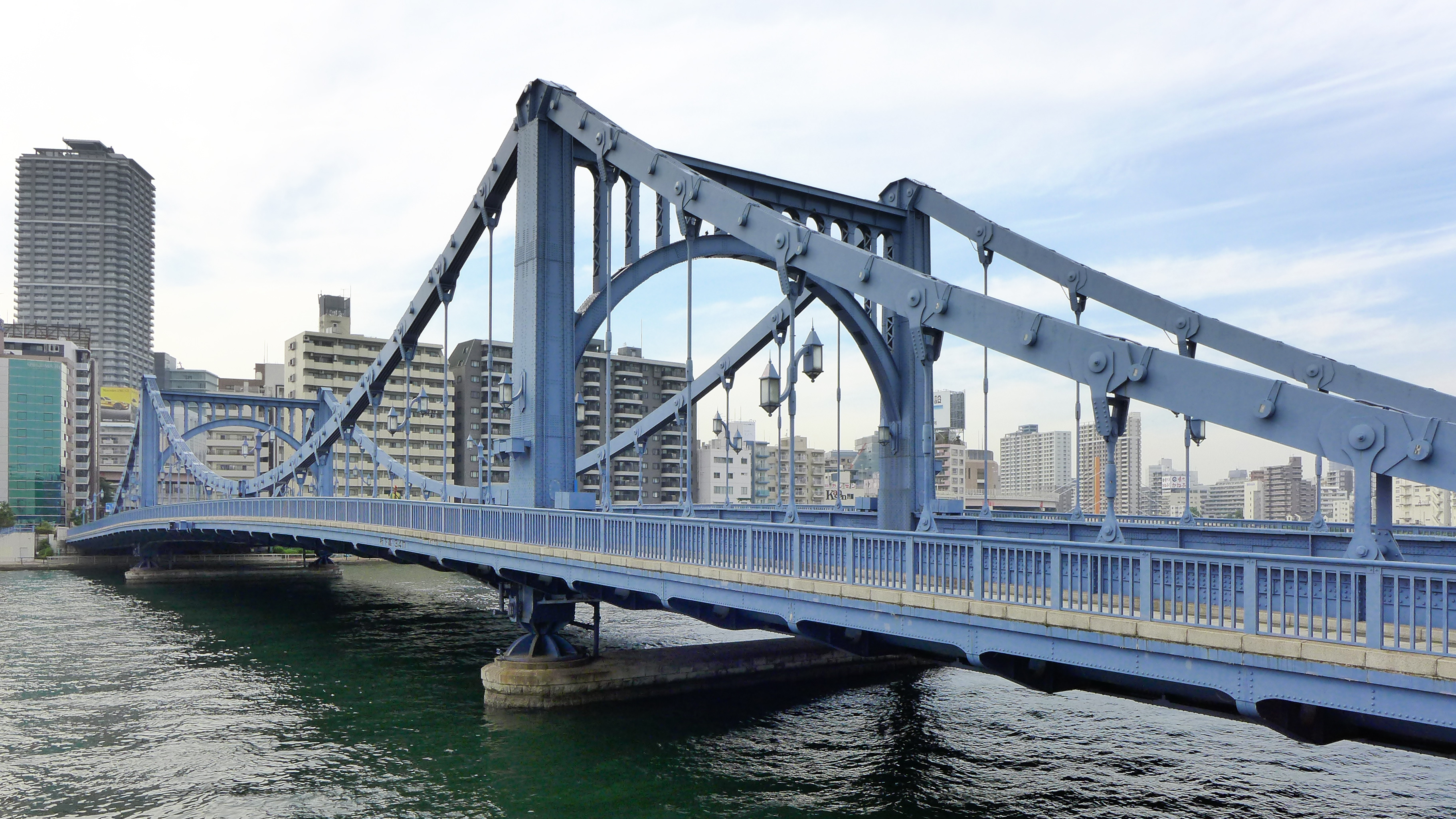 Kiyosu Bridge in Sumida River, Tokyo, Japan.